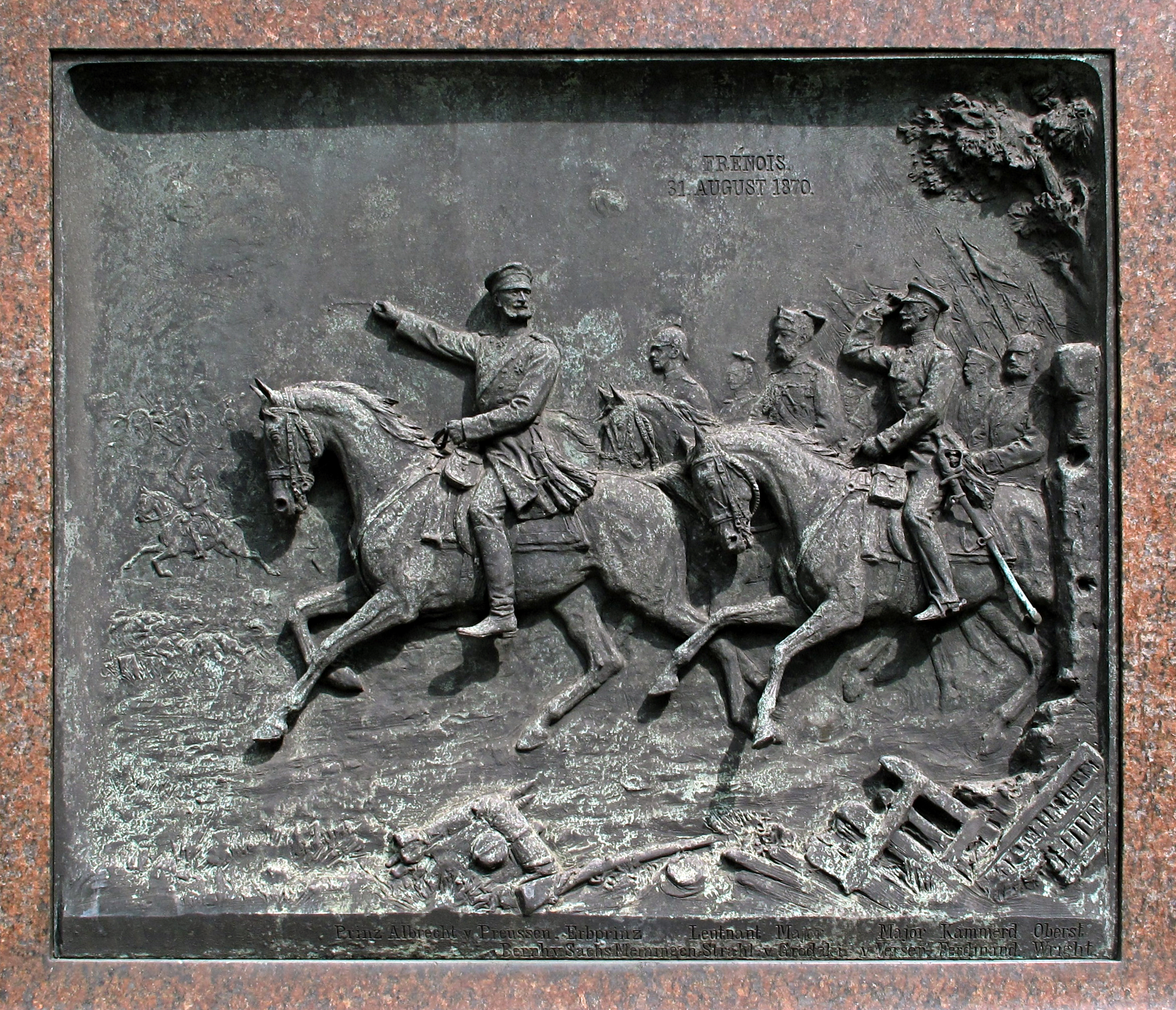 Relief showing a scene of the Battle of Sedan (here Aug. 31, 1870) on the Prinz-Albrecht-von-Preußen-Denkmal, a monument commemorating to Prince Albert of Prussia (1809–1872). The monument shows Prince Albert in 1870 as General of the Cavalry in the Franco-Prussian War. The pedestal-reliefs depict scenes from the Battle of Sedan and the Battle of Loigny-Poupry.The monument was created in 1901 by the german sculptors Eugen Boermel and Conrad Freyberg. It is located at the northern end of the Schloßstraße on the corner to the Spandauer Damm in Berlin-Charlottenburg.